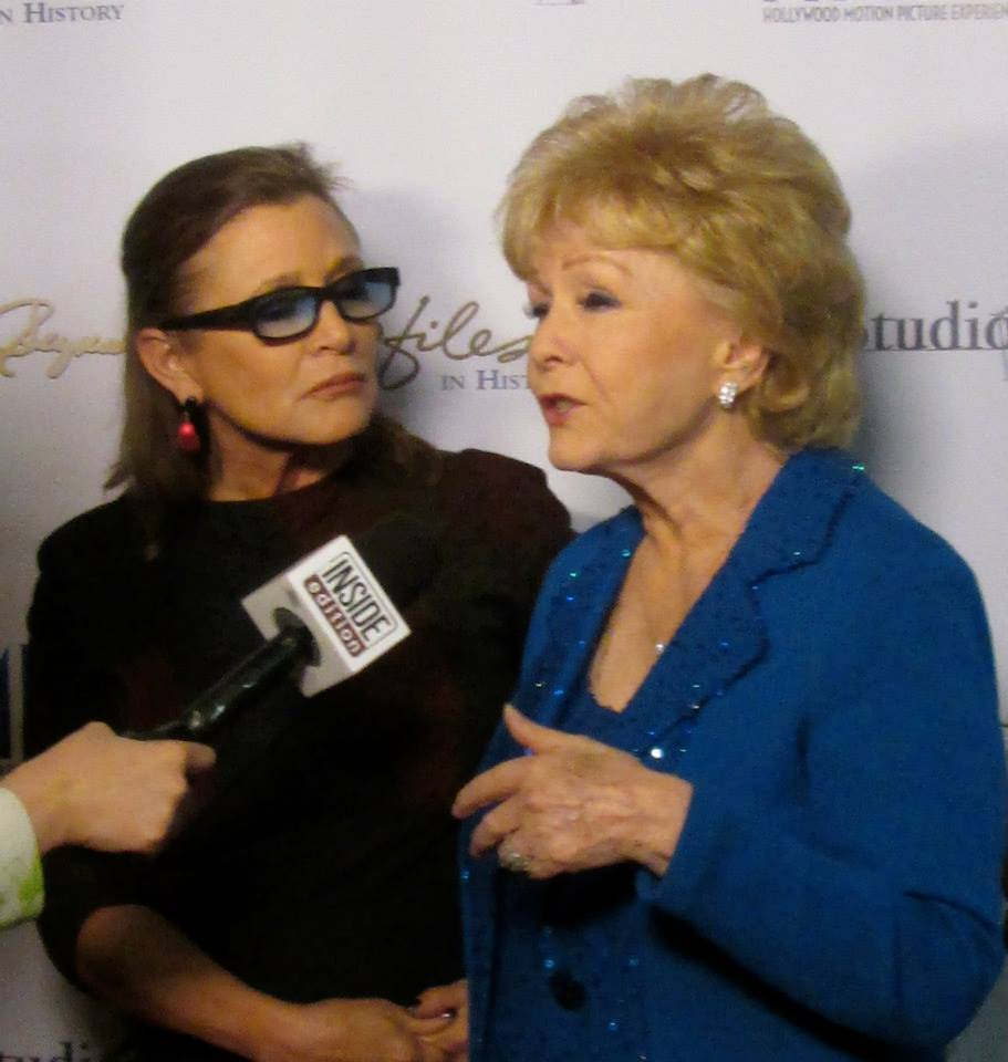 Carrie Fisher and Debbie Reynolds, 2015